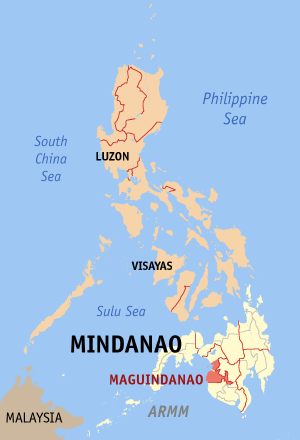 Map of the Philippines showing the location of Maguindanao